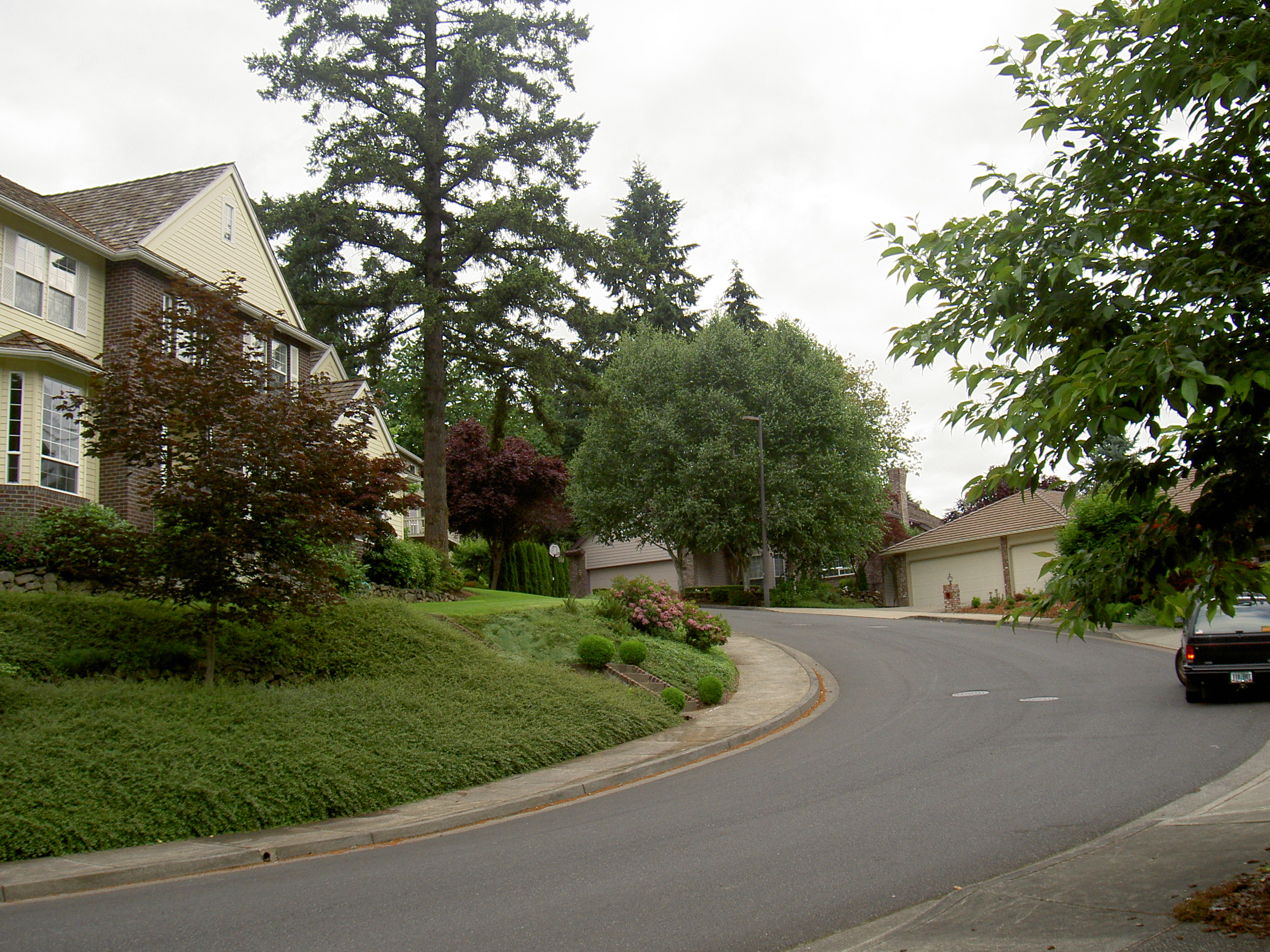 Typical West Linn street, hilly section.